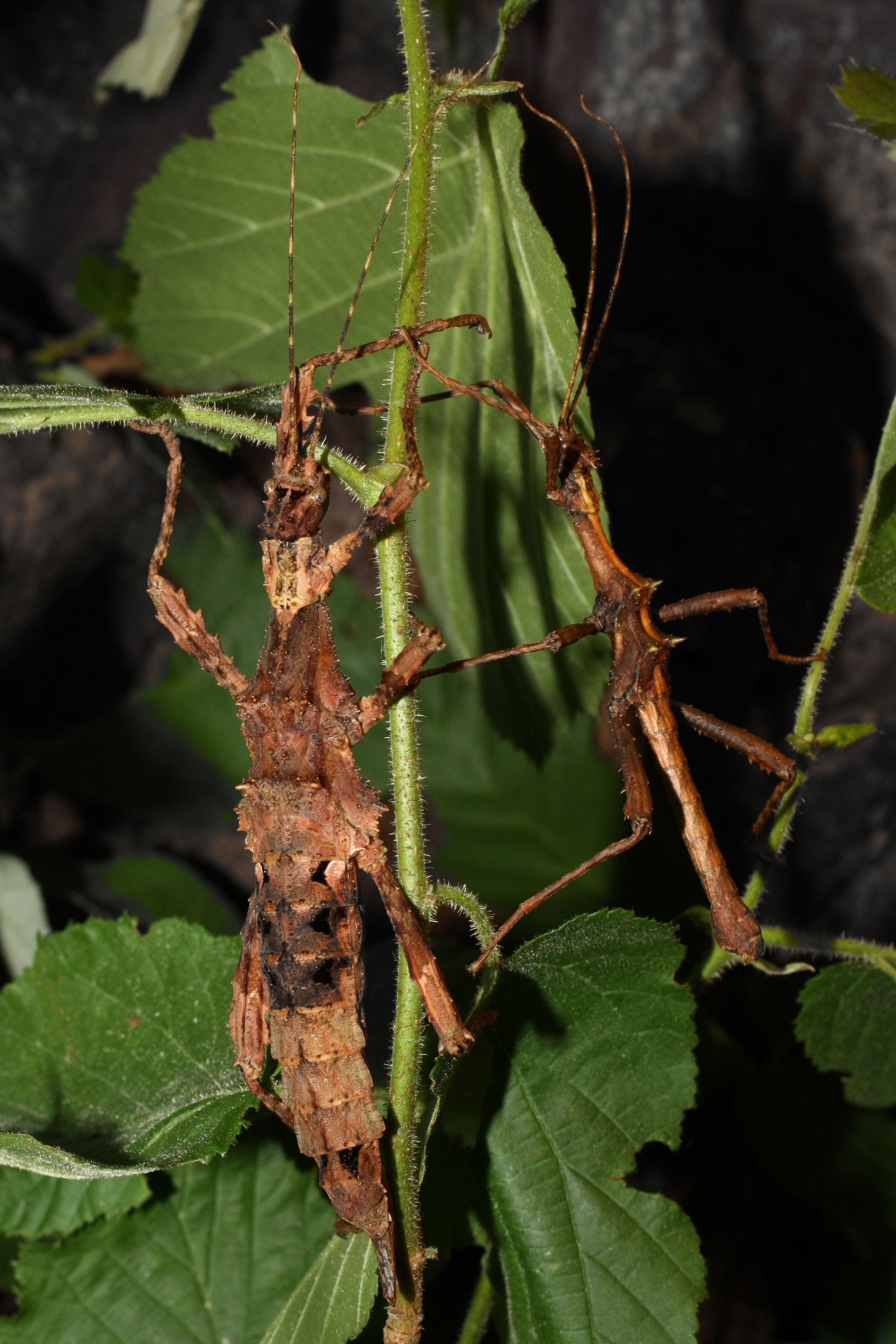 Pair of Trachyaretaon sp. "Aurora" from Aurora (Philippines, Central-Luzon)